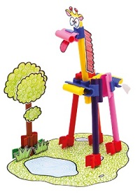 This is a Giraffe Craft made with Connector Pen